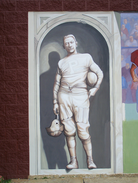 A detail of a mural by artist Herb Roe on the Clark Athletic Complex in Portsmouth, Ohio.